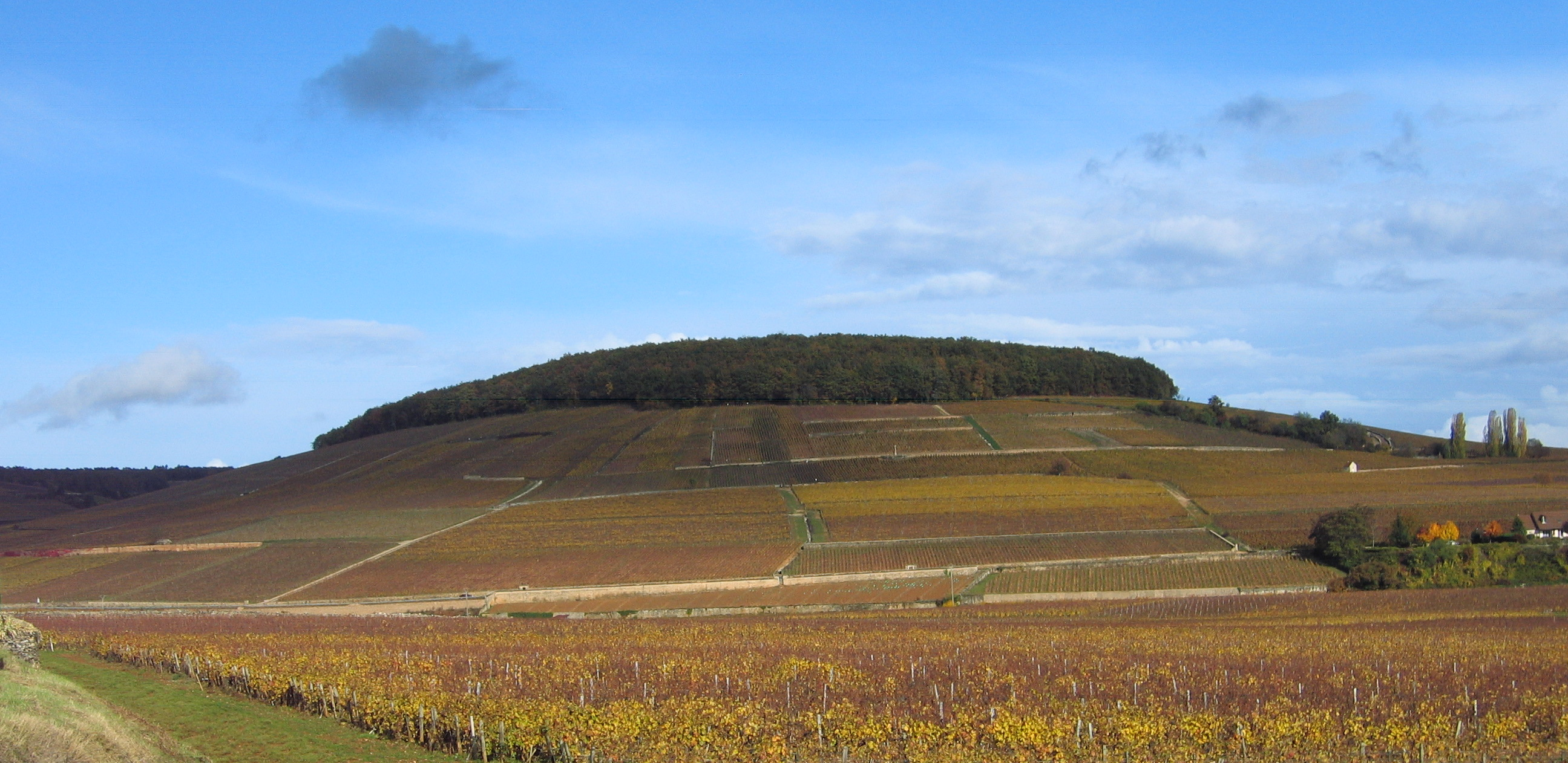 The Corton hill as seen from southwest (by D18 road at les Basses Vergelesses). Most of the vineyards on the hill are in the Corton climats of le Charlemagne (left) and les Pougets (right), both in Aloxe-Corton. Just below the hill are some other Aloxe-Corton vineyards, and the closest vineyards are premier cru vineyards of Pernand-Vergelesses.